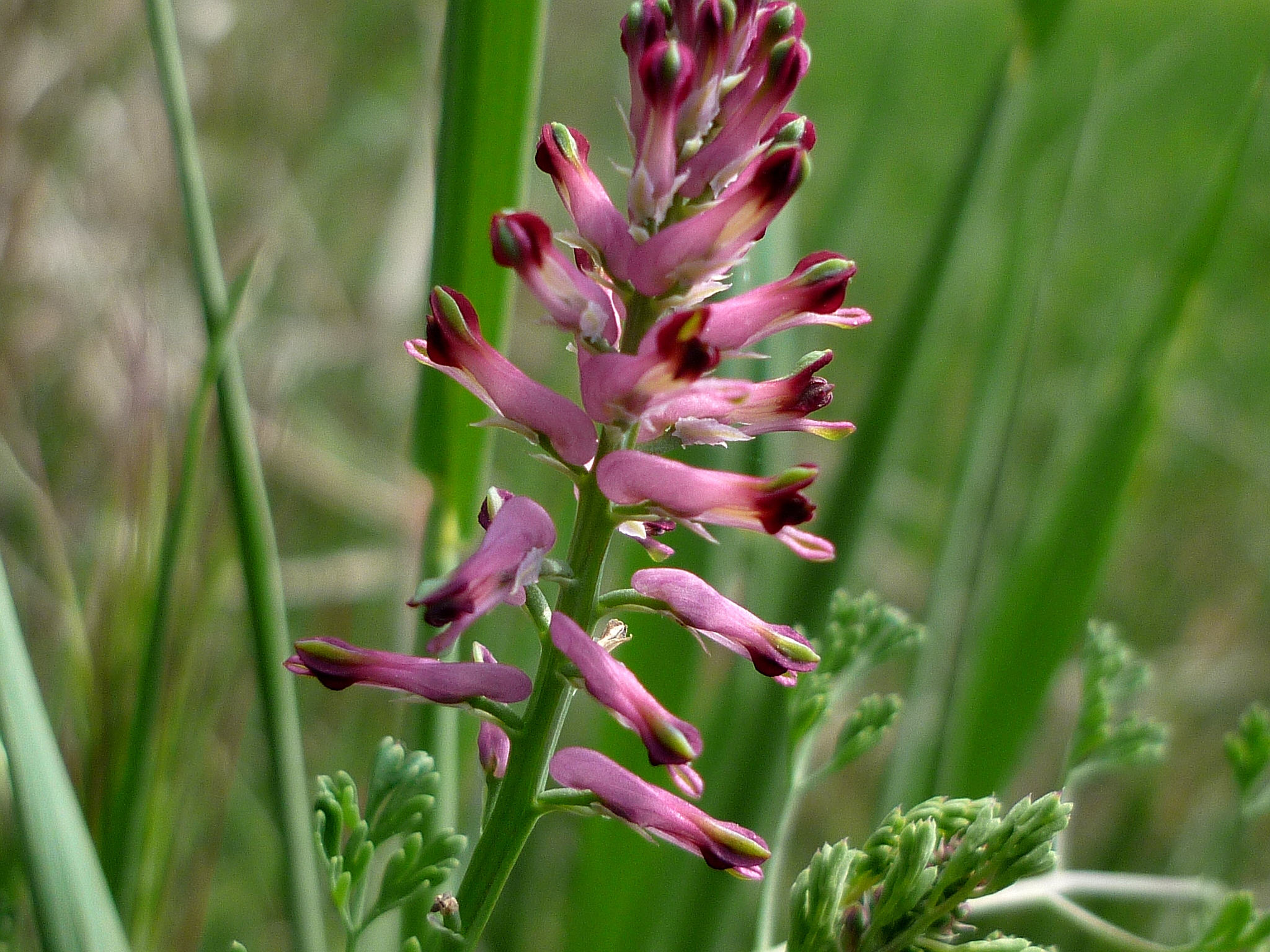 Fumaria officinalis. In Torà (Segarra-Catalunya). To 590 m. altitude